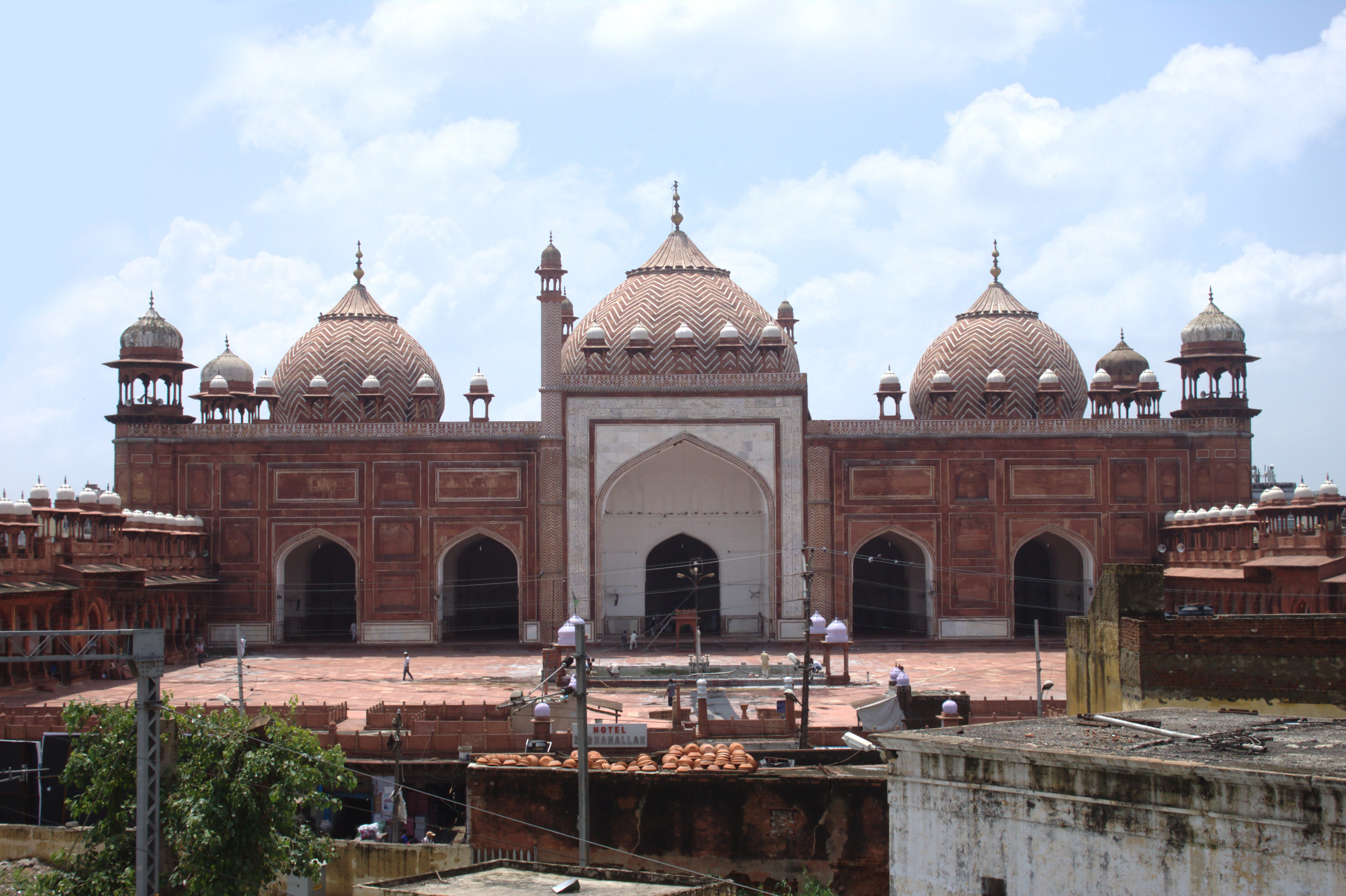 view of the Jama Masjid Mosque in Agra, Uttar Pradesh, India